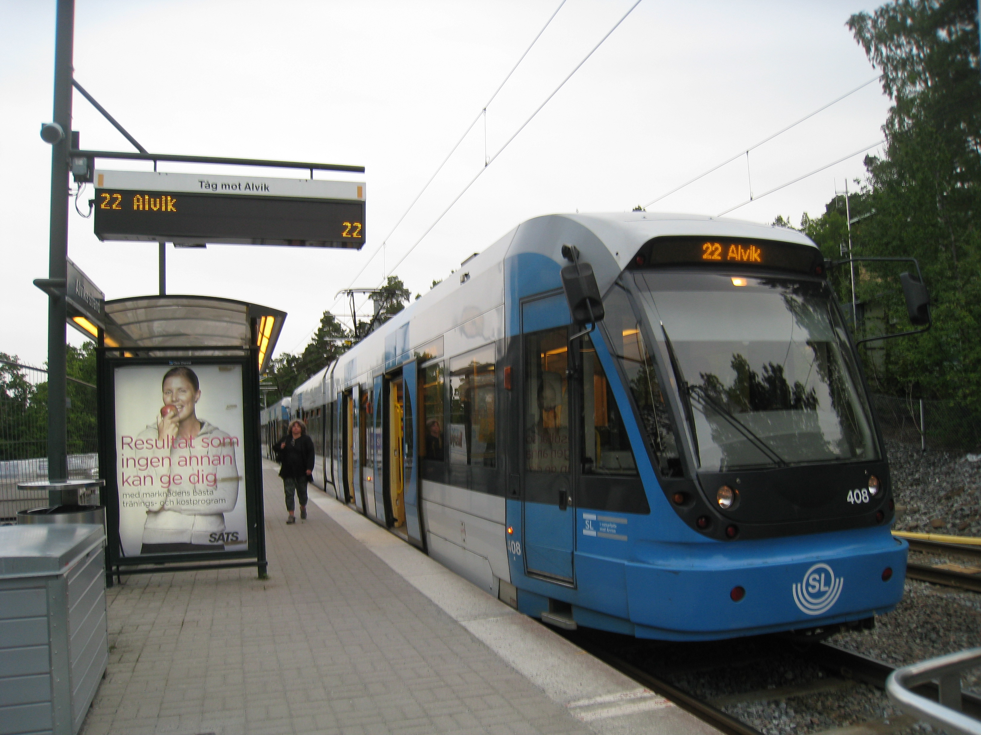 Alviks Strand tram stop at Tvärbanan in Alvik in Bromma (2013).